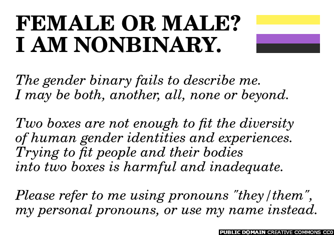 An personal description of nonbinary gender identity.